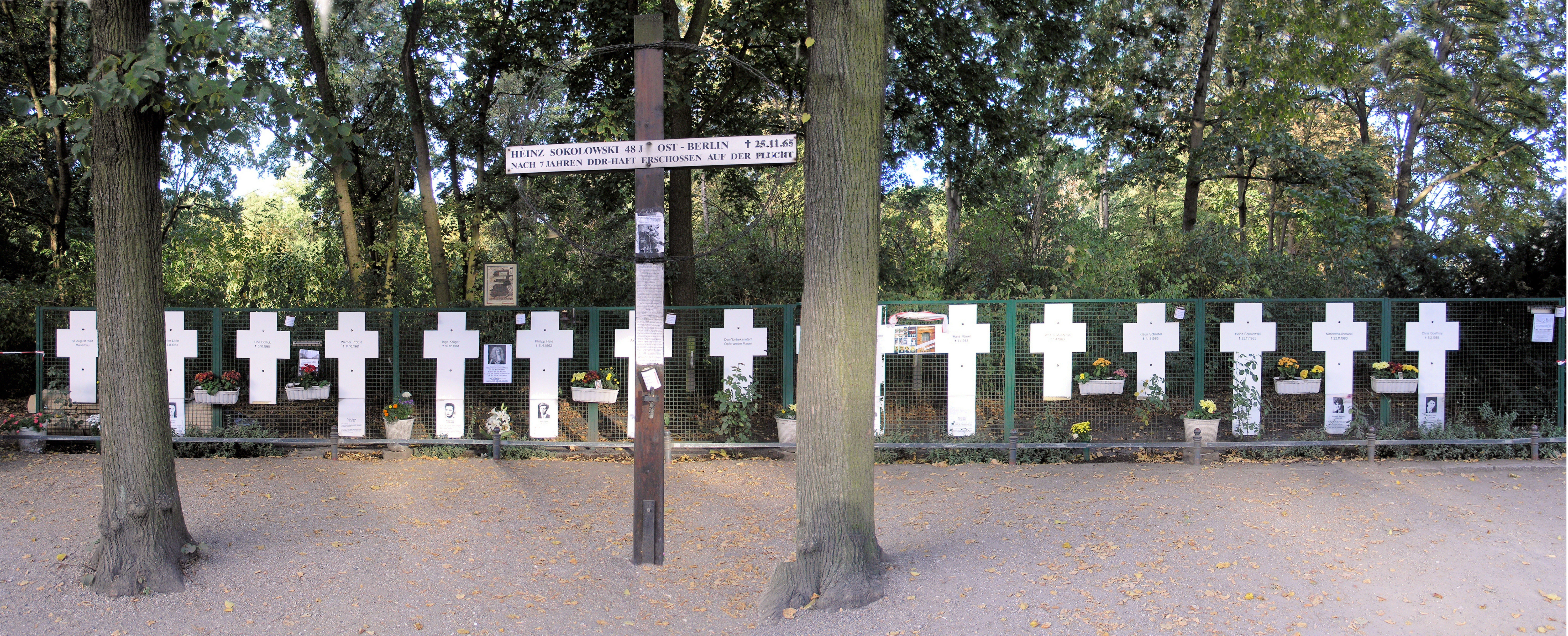 Memorial plaque, Maueropfer, Ebertstraße ggü 25, Berlin-Tiergarten, Germany